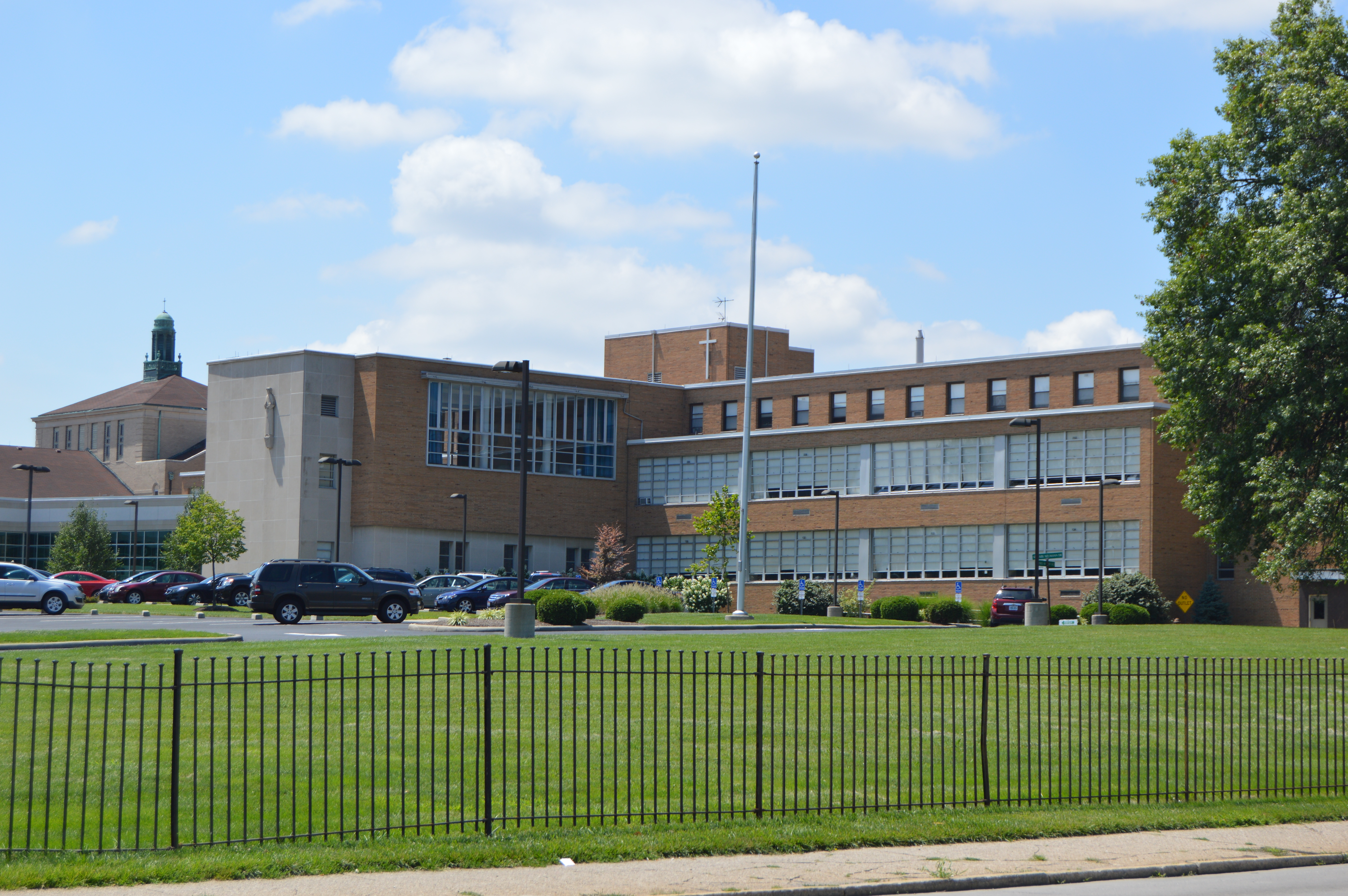 Front and eastern side of Seton High School, located at 3901 Glenway Avenue (State Route 264) in Cincinnati, Ohio, United States.